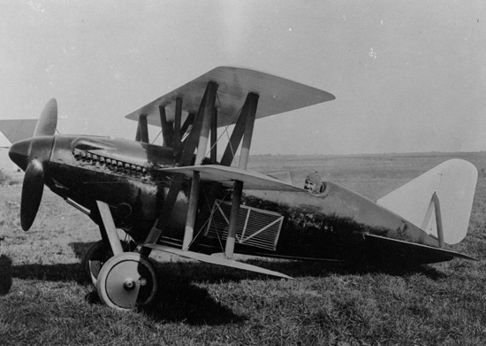 Curtiss Model 22 "Cactus Kitten" after installation of triplane wings.